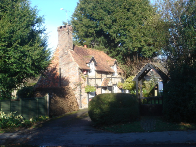 Brook Cottage, Rusper Road, Ifield, Crawley, West Sussex, England. Timber-framed, early 17th-century cottage. Listed at Grade II by English Heritage (ref #363392)